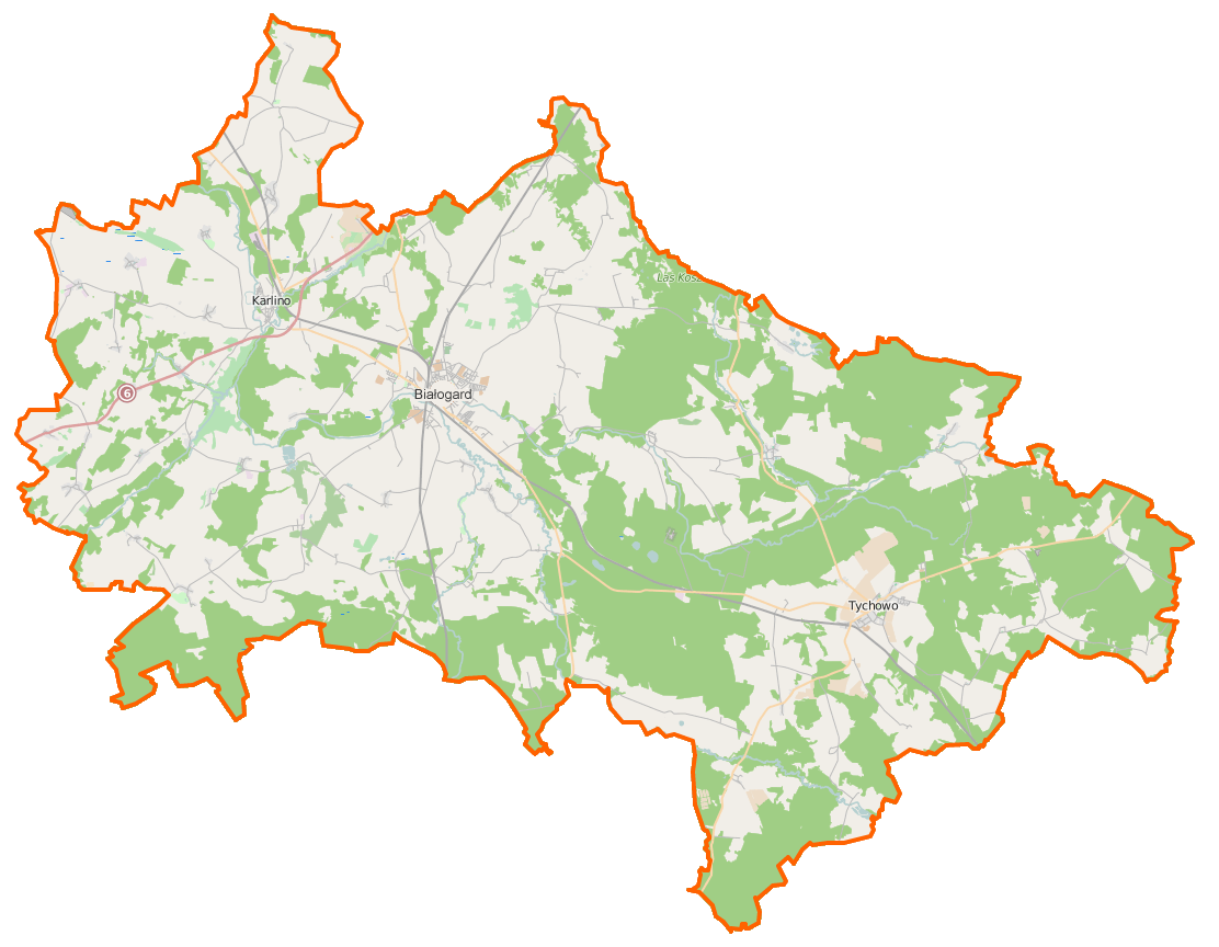 Map of Powiat białogardzki, Poland This map of Powiat białogardzki was created from OpenStreetMap project data, collected by the community. This map may be incomplete, and may contain errors. Don't rely solely on it for navigation.